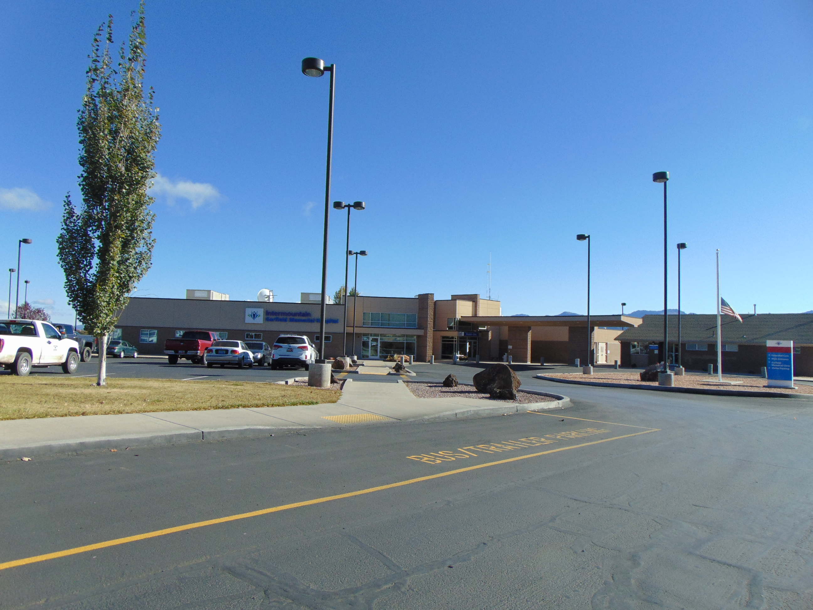 Looking northwest at Garfield Memorial Hospital from East 200 North in Panguitch, Utah, October 2017